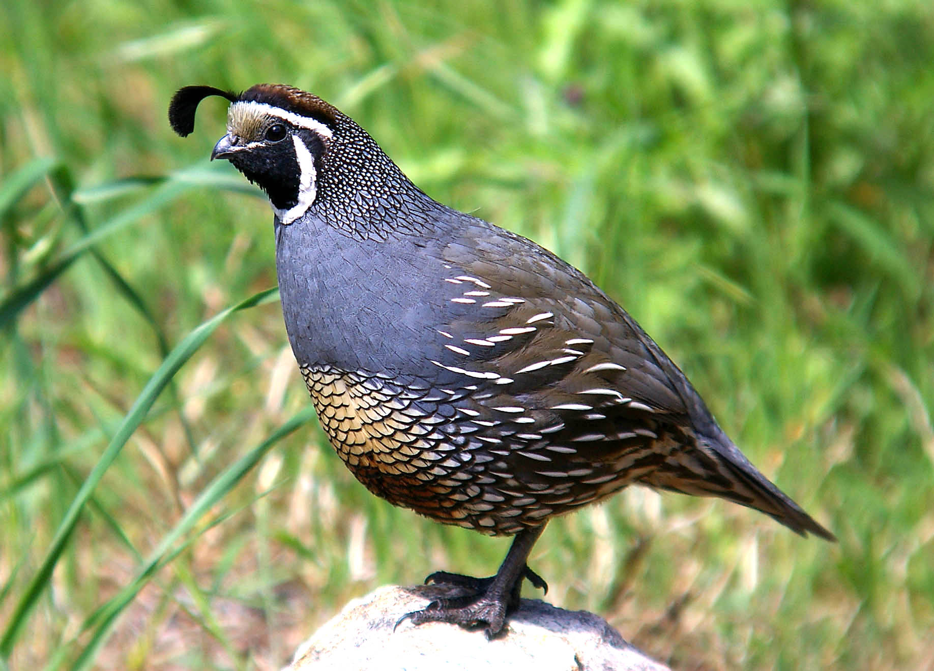 ABA AREA BIRDS: My Photo "Life List"